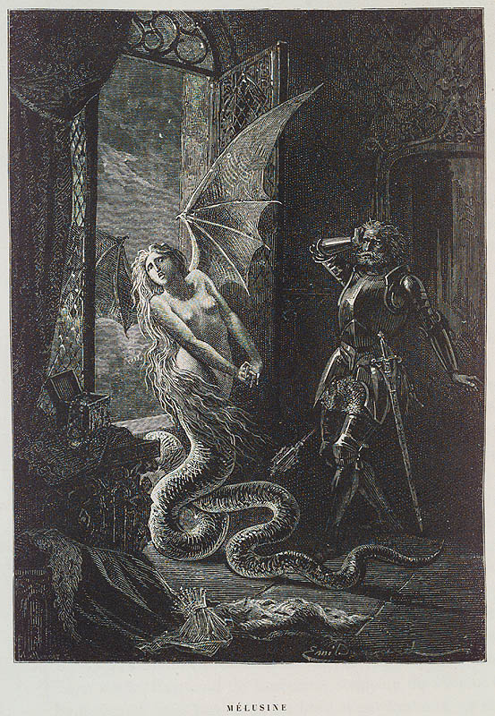 Mélusine. Illustration from History of Magic by Emile Bayard